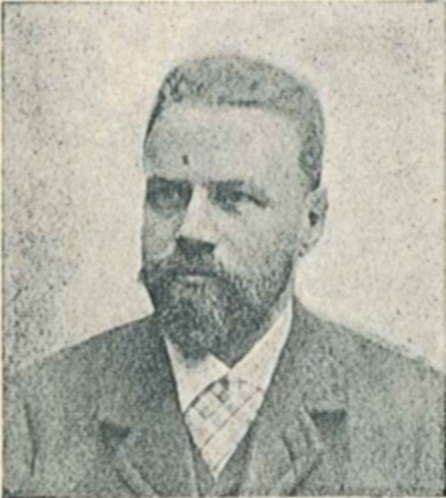 Swedish politician Teodor Zetterstrand. From page 11 of an album featuring portraits of all the members of the second chamber of the Swedish parliament (Sveriges riksdag) elected in 1897.